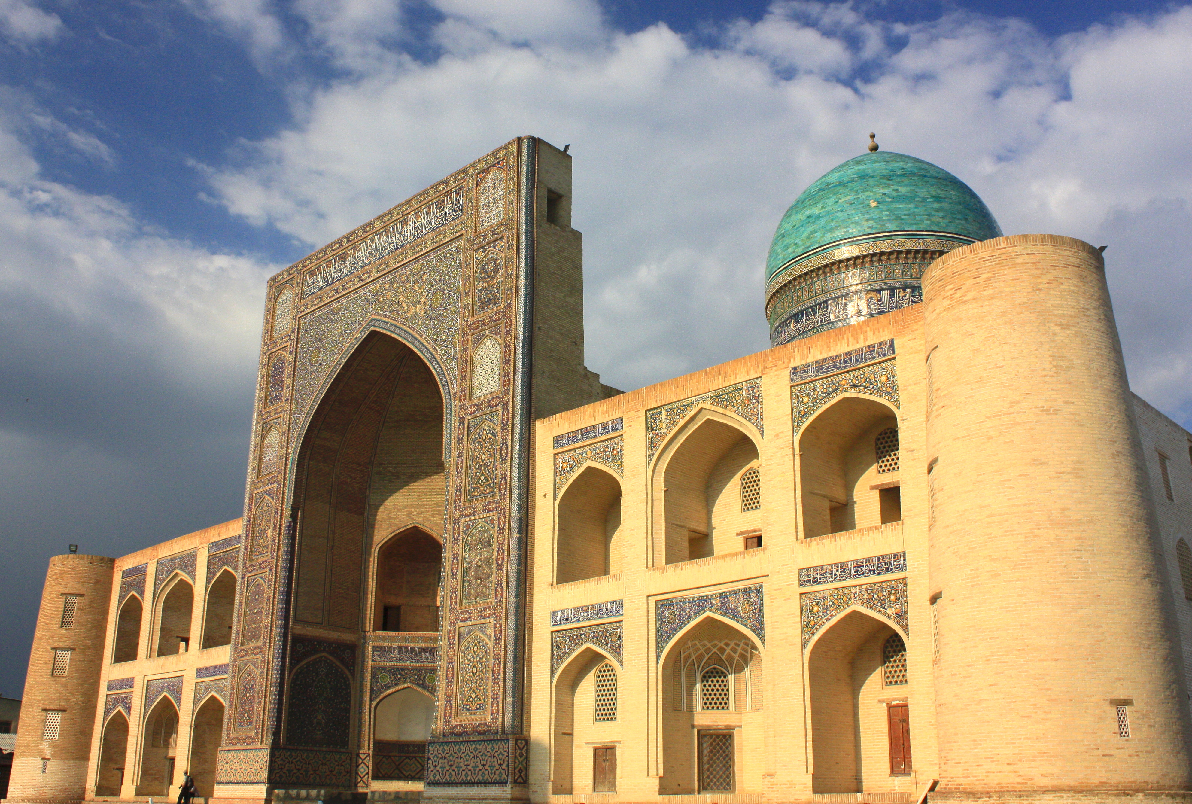 A view of the Mir-i-Arab Madrassa in Bukhara, Uzbekistan